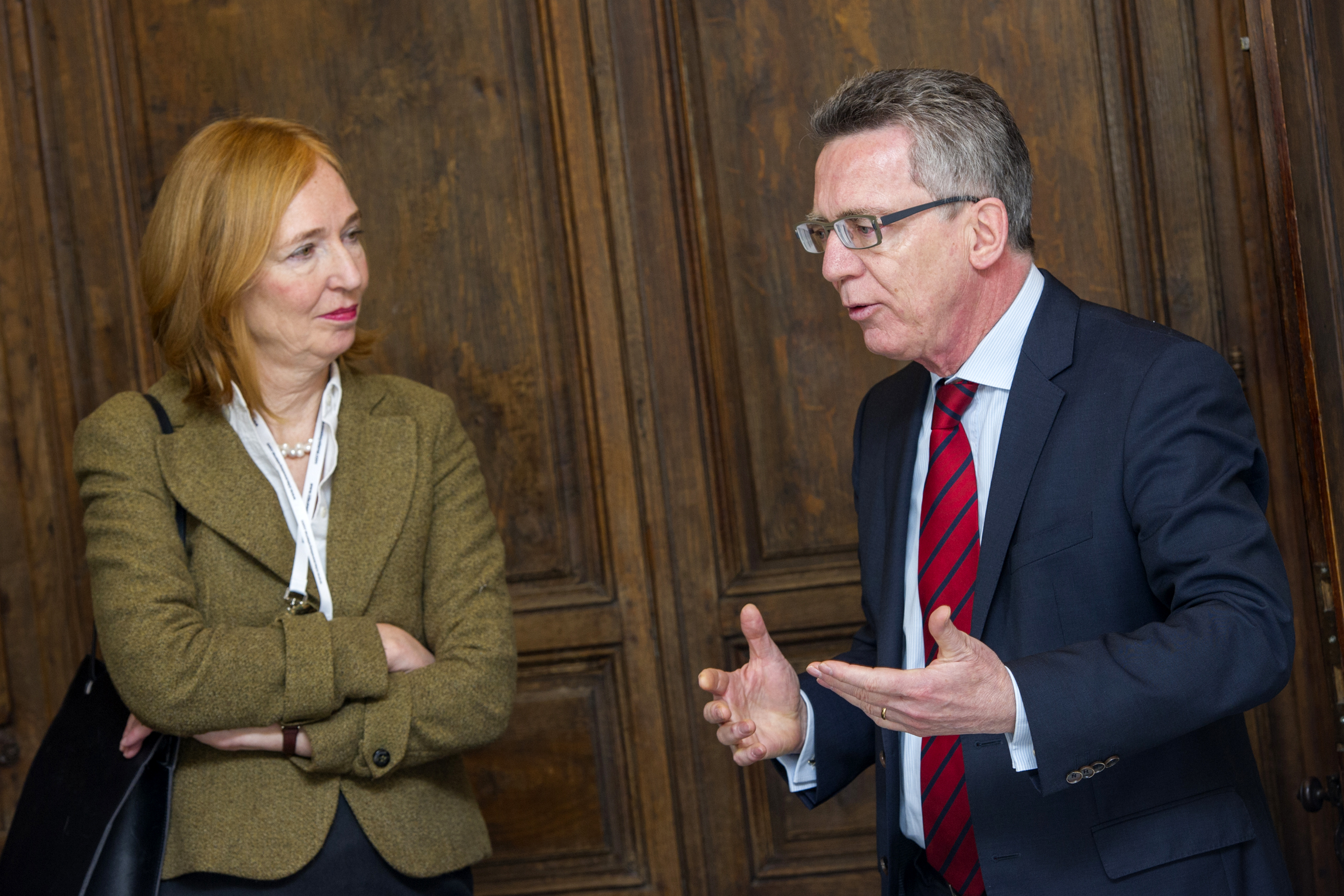 50th Munich Security Conference 2014: Emily Haber and Thomas de Maizière: Emily Haber (State Secretary, Ministry of the Interior, Federal Republic of Germany) and Thomas de Maizière (Federal Minister of the Interior, Federal Republic of Germany).